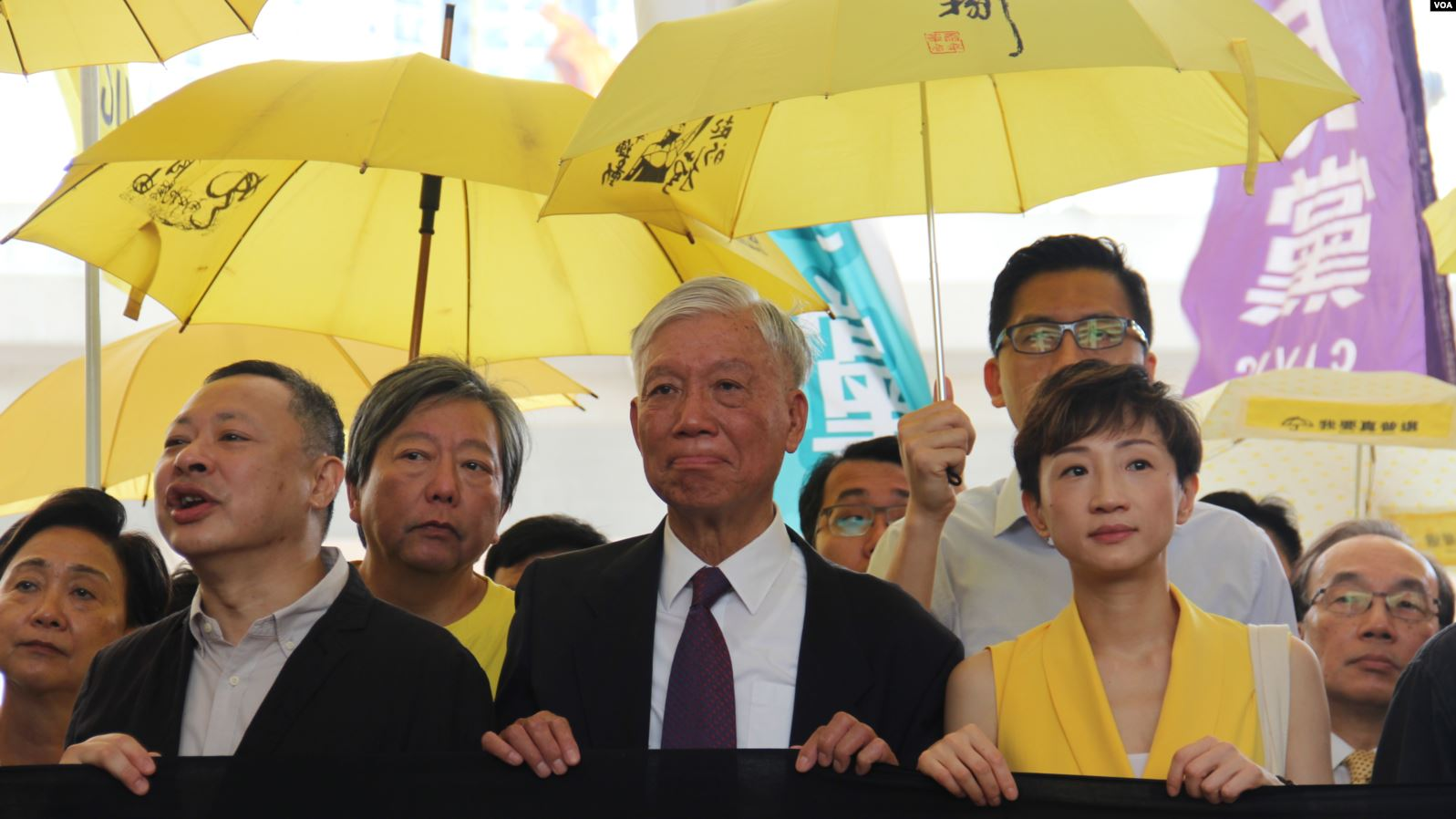 On April 24, 2019, outside the Hong Kong's West Kowloon court, democratic activists pulled banners before trial in which nine leaders of the Occupy Central Movement were accused of public nuisance and other related Umbrella revolution in 2014. The nine defendants were Tommy Cheung Sau-yin; Eason Chung Yiu-wa; Tanya Chan; Chu Yiu-ming; Chan Kin-man; Benny Tai; Raphael Wong; Lee Wing-tat; and Shiu Ka-chun.